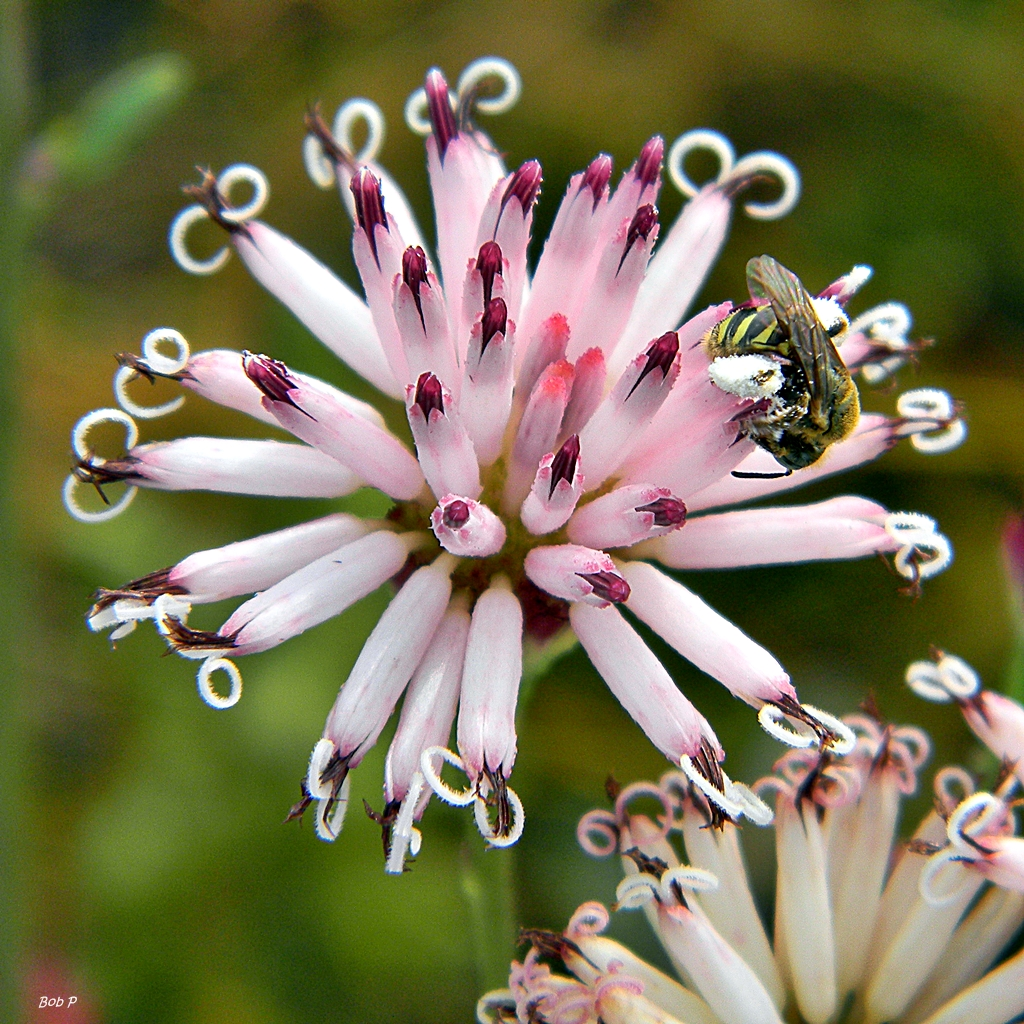 This little 7mm mining bee of the genus Perdita appears to be the primary pollinator of the Feay's Palafox (Palafoxia feayi) around here. The legs of this busy little bee are always loaded up with the snowy white pollen. This one lives at Juno Dunes Natural Area. There are over 530 species and 16 subgenera of Perdita! Here is a mini-video of this bee bugging a fritillary and collecting pollen: (ID courtesy of )